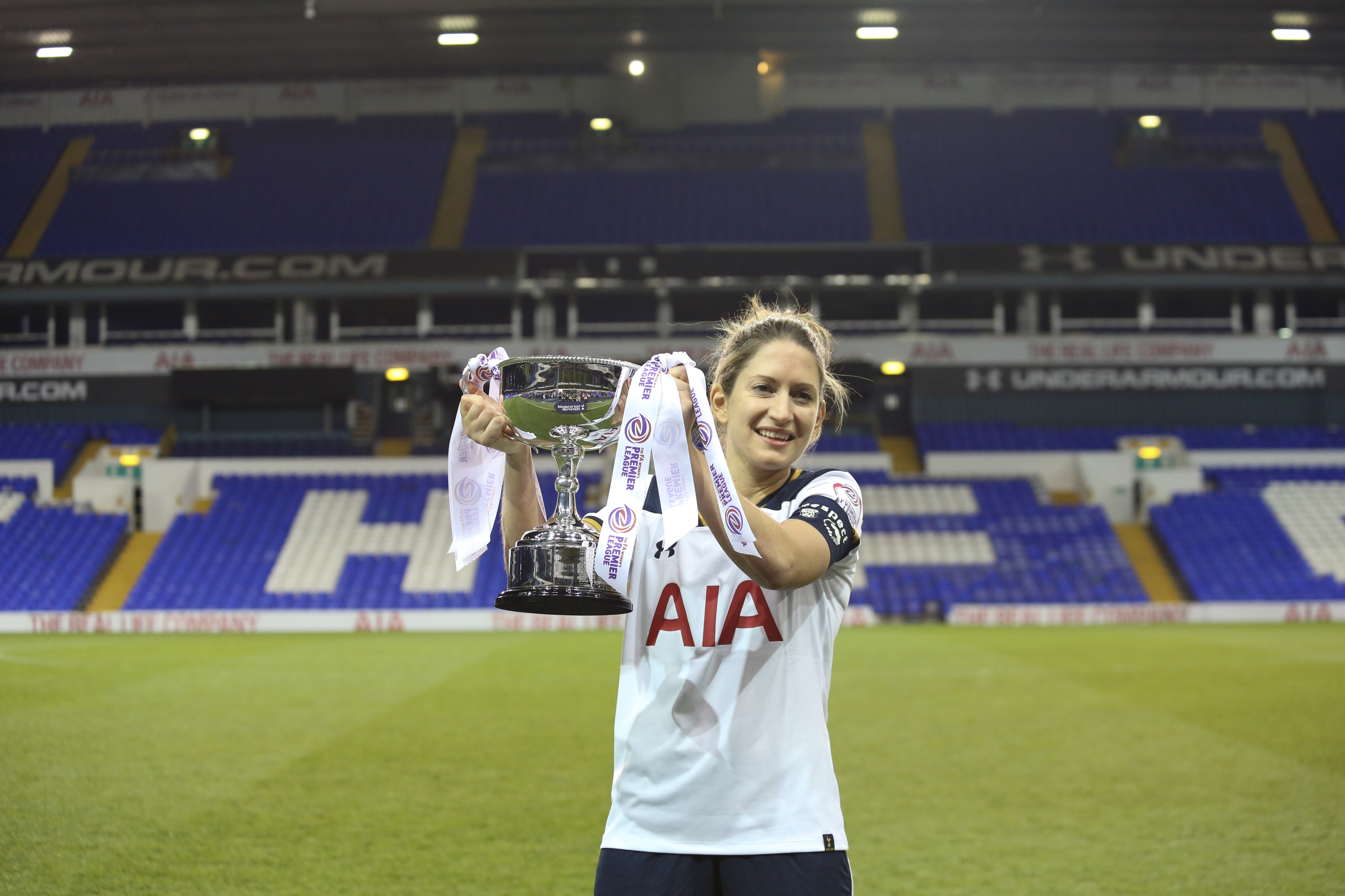 Tottenham Hotspur LFC v West Ham United LFC, 19 April 2017